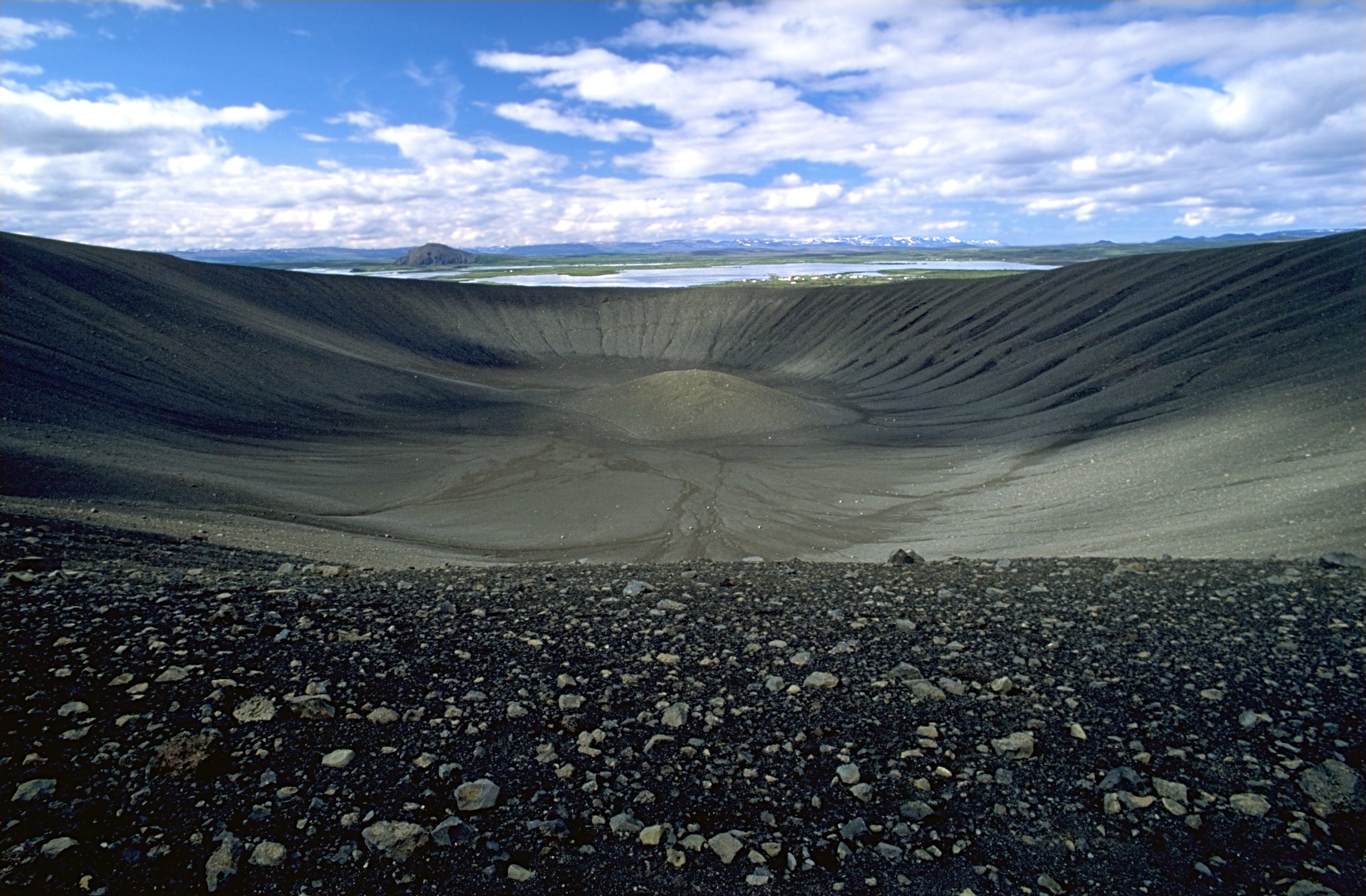 Inner Crater of Hverfell, Iceland Photo was taken using the following technique: Film: Fuji Velvia Lens: 2.0/20 Filter: polarizer Body: Minolta Dynax 600si Support: Gitzo Monotrek Image with Information in English Bild mit Informationen auf Deutsch